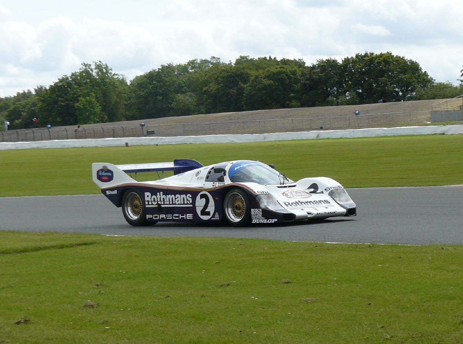 A Porsche 956 at the Silverstone Classic